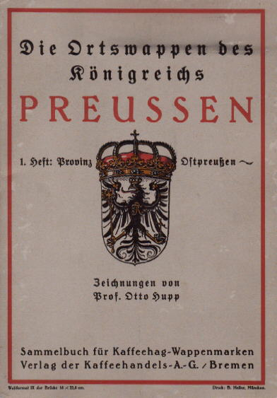 Title page of book